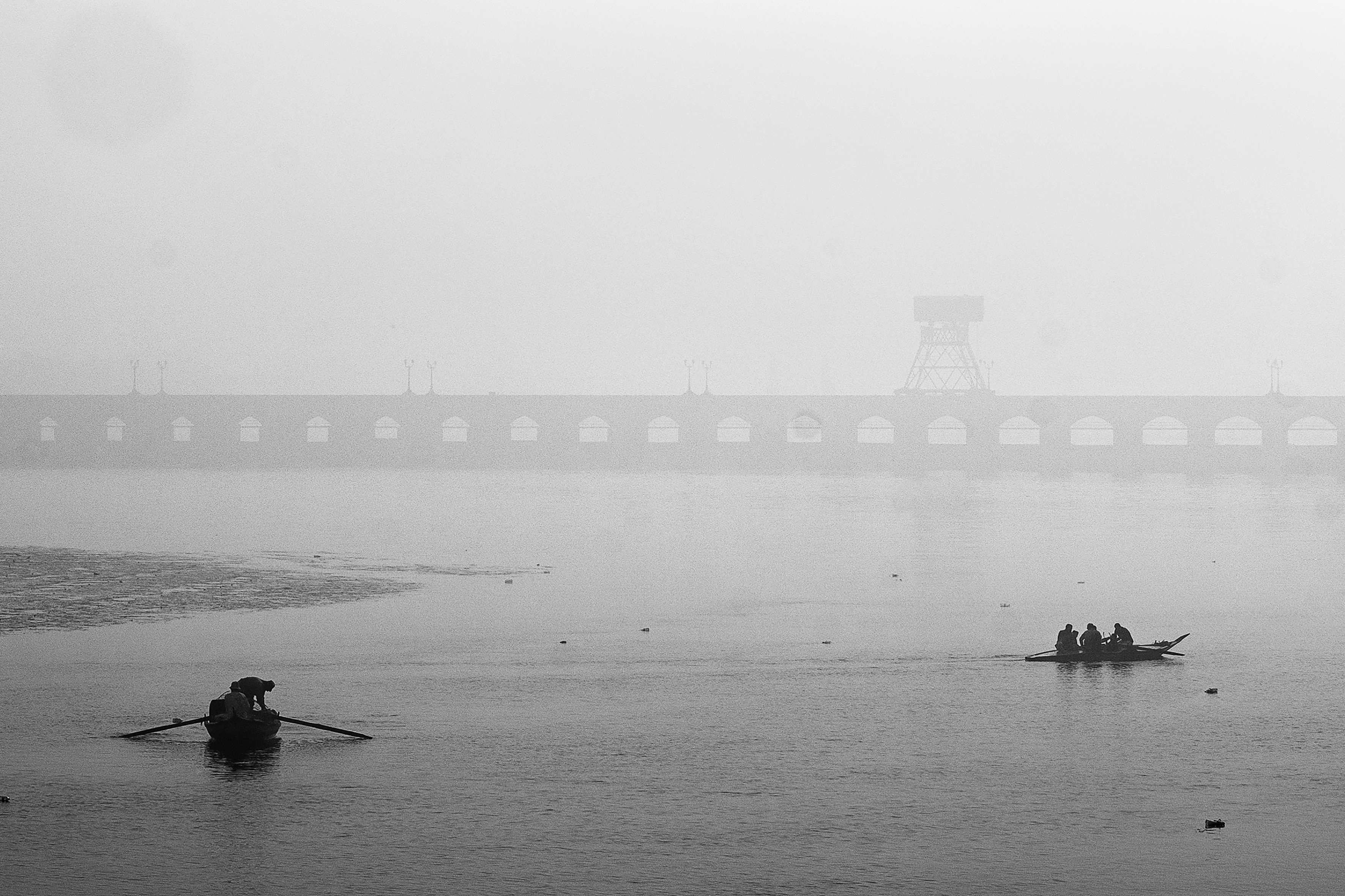 people go early morning for work even when it foggy This is an image with the theme "Africa on the Move or Transport" from: Egypt